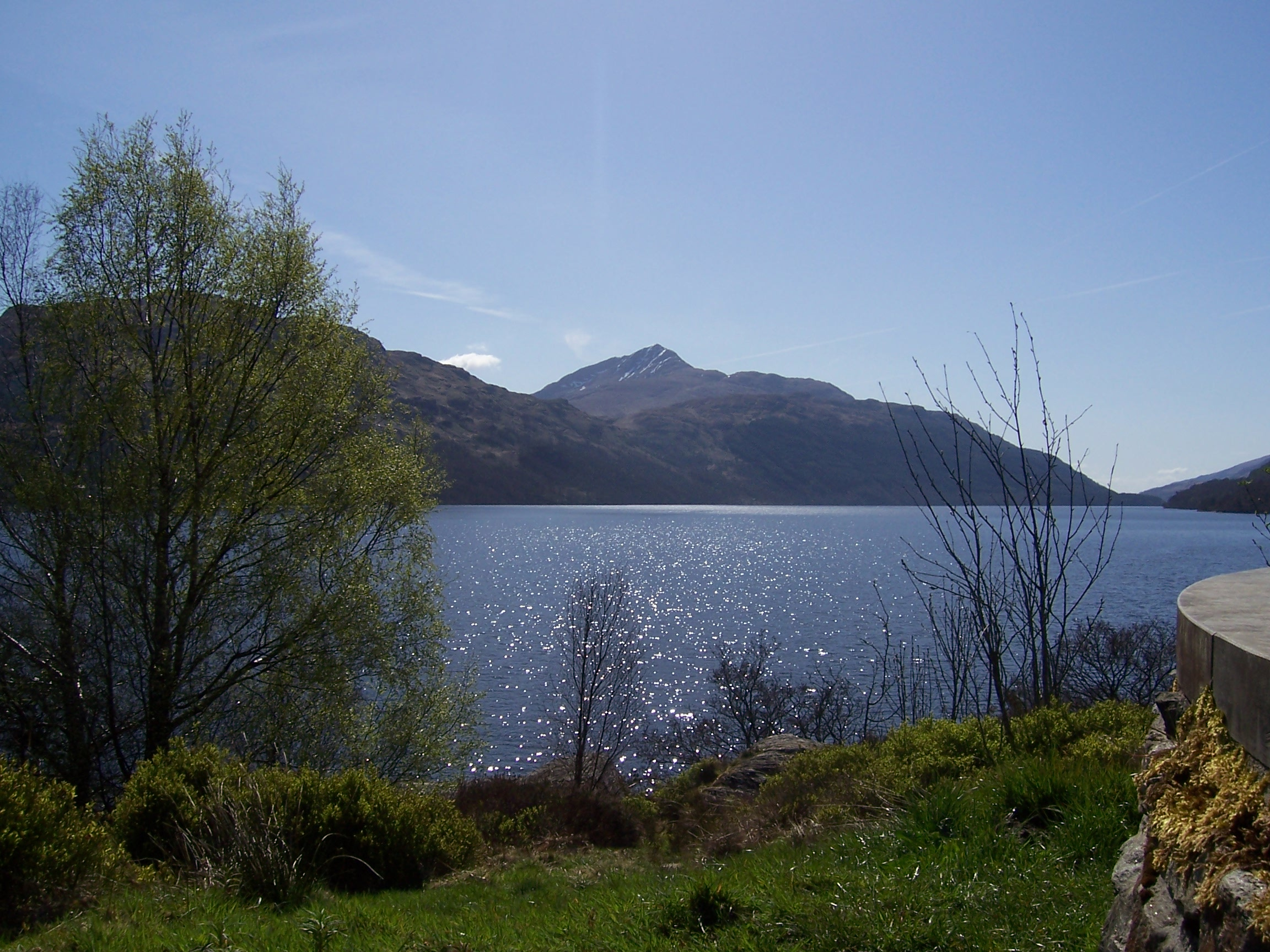 Photo of Loch Lomond and Ben Lomond from north-west shore.